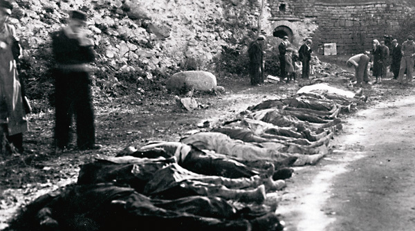 People massacred by Soviet authorities at some time during period from June to September 1941 in Kuressaare, Estonia.